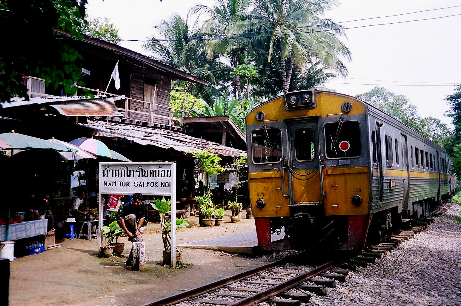 The current last station of Death Railway (Thai-Burmese Railway) of Thailand side.